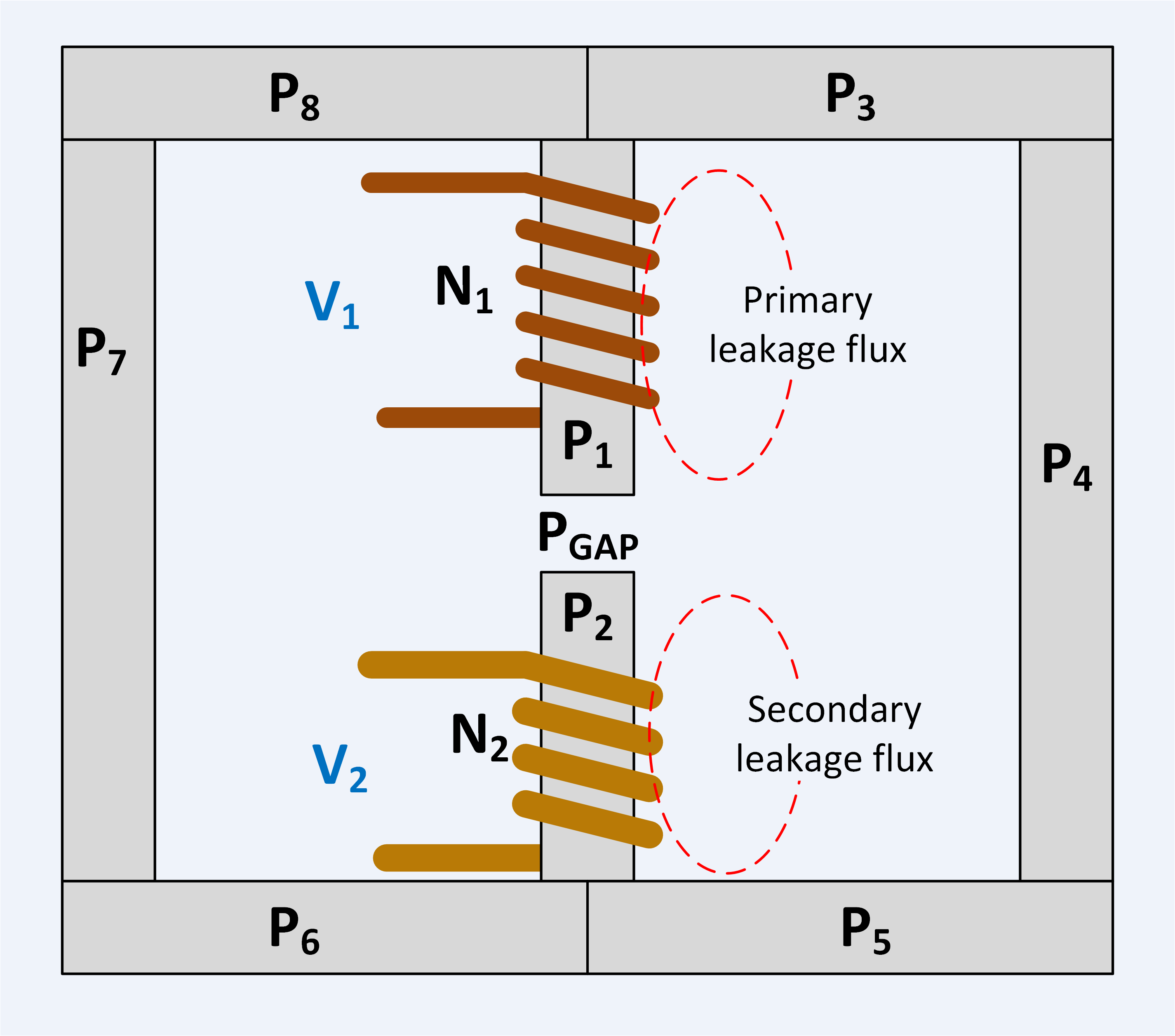 A representation of a single phase transformer showing magnetic elements, a magnetic gap and leakage flux.